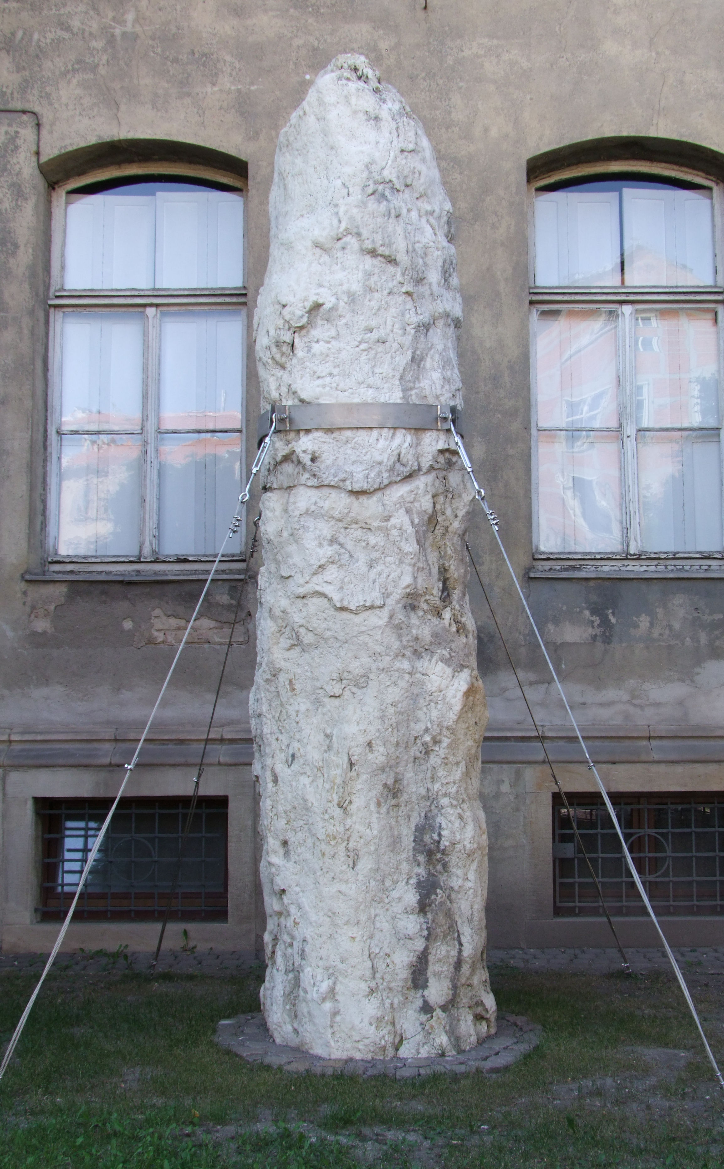 Fossil tree from the lignite deposits of the Geiseltal area, encrusted by carbonate minerals, on display in the gardens of the Zoological department of the MLU Halle